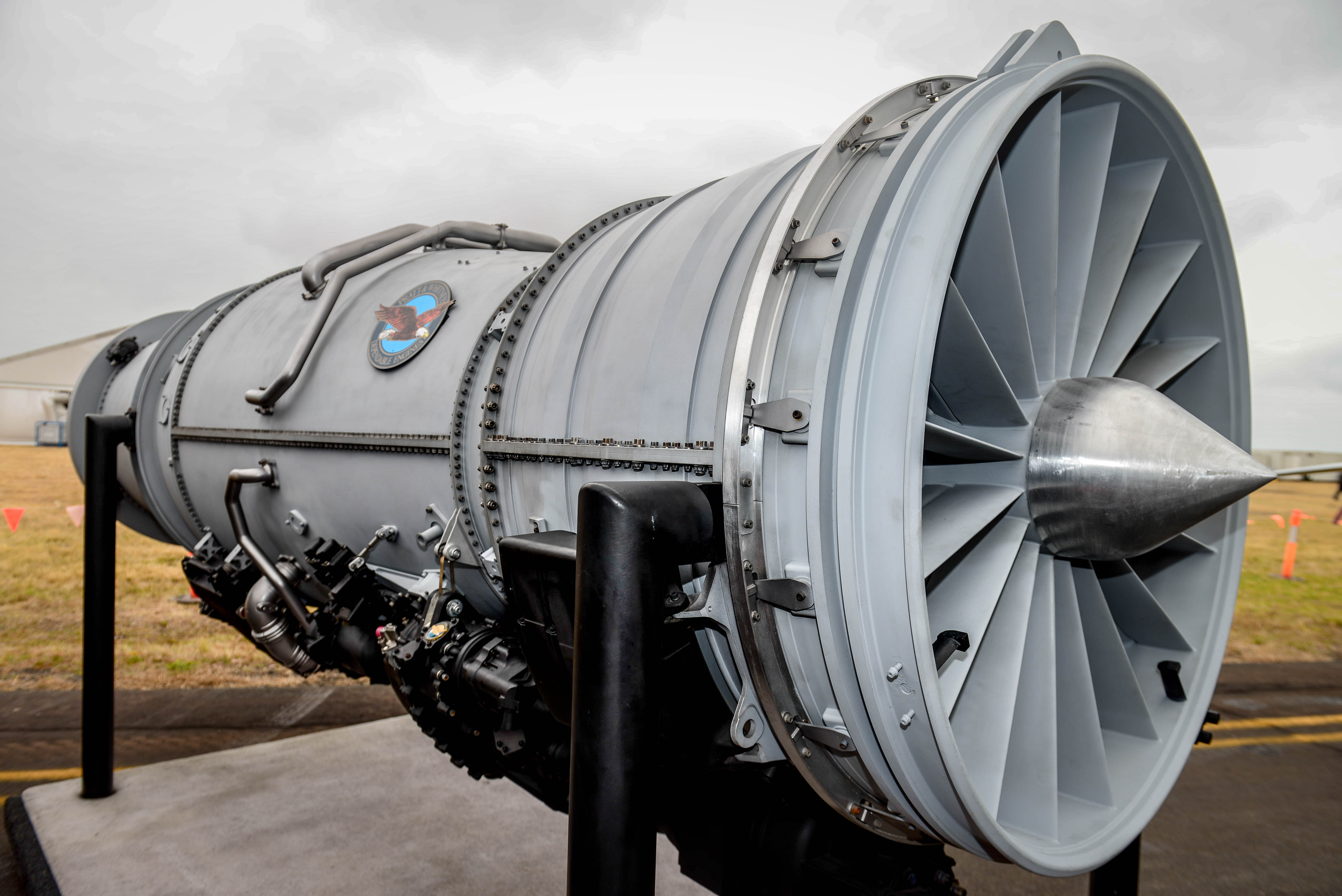 F-35A Lightning II Joint Strike Fighter Powerplant on display at Centenary of Military Aviation 2014